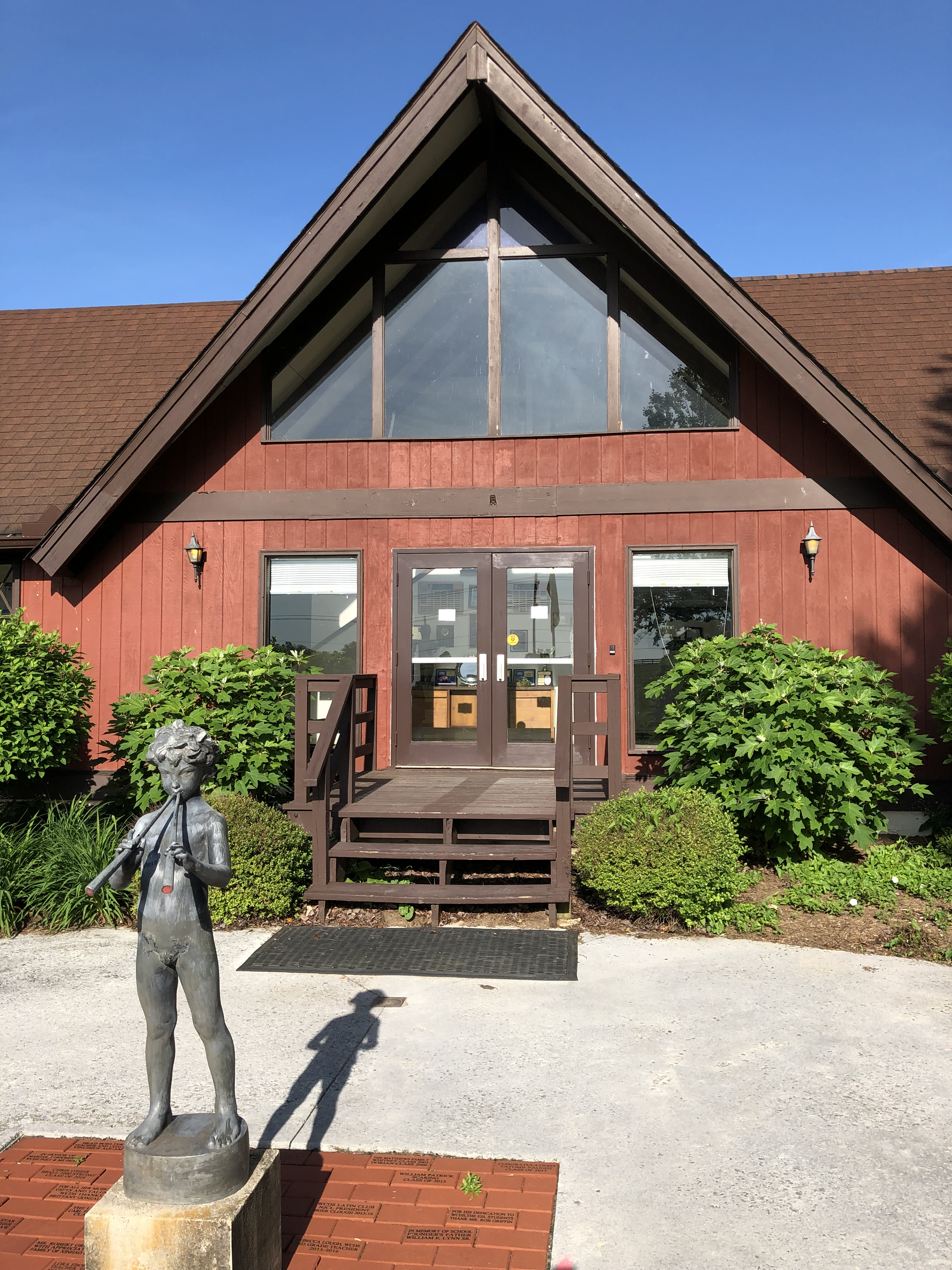 This is the main facade of the building, which faces the front lawn and US 522